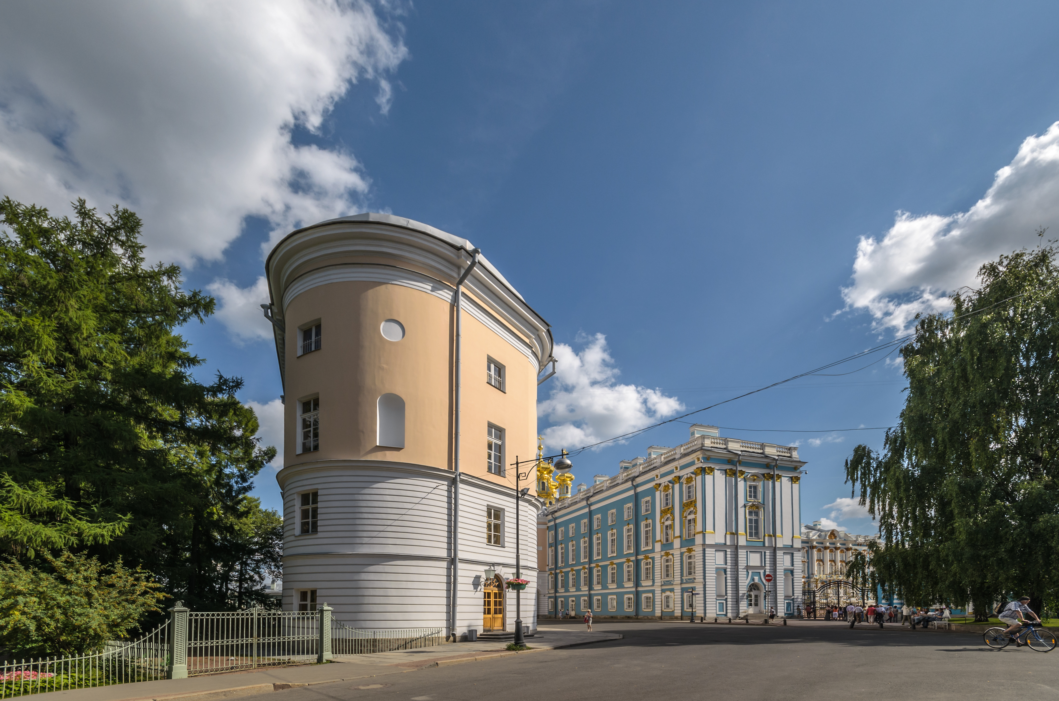 The Liceum building in Tsarskoe Selo, Saint Petersburg, Russia.